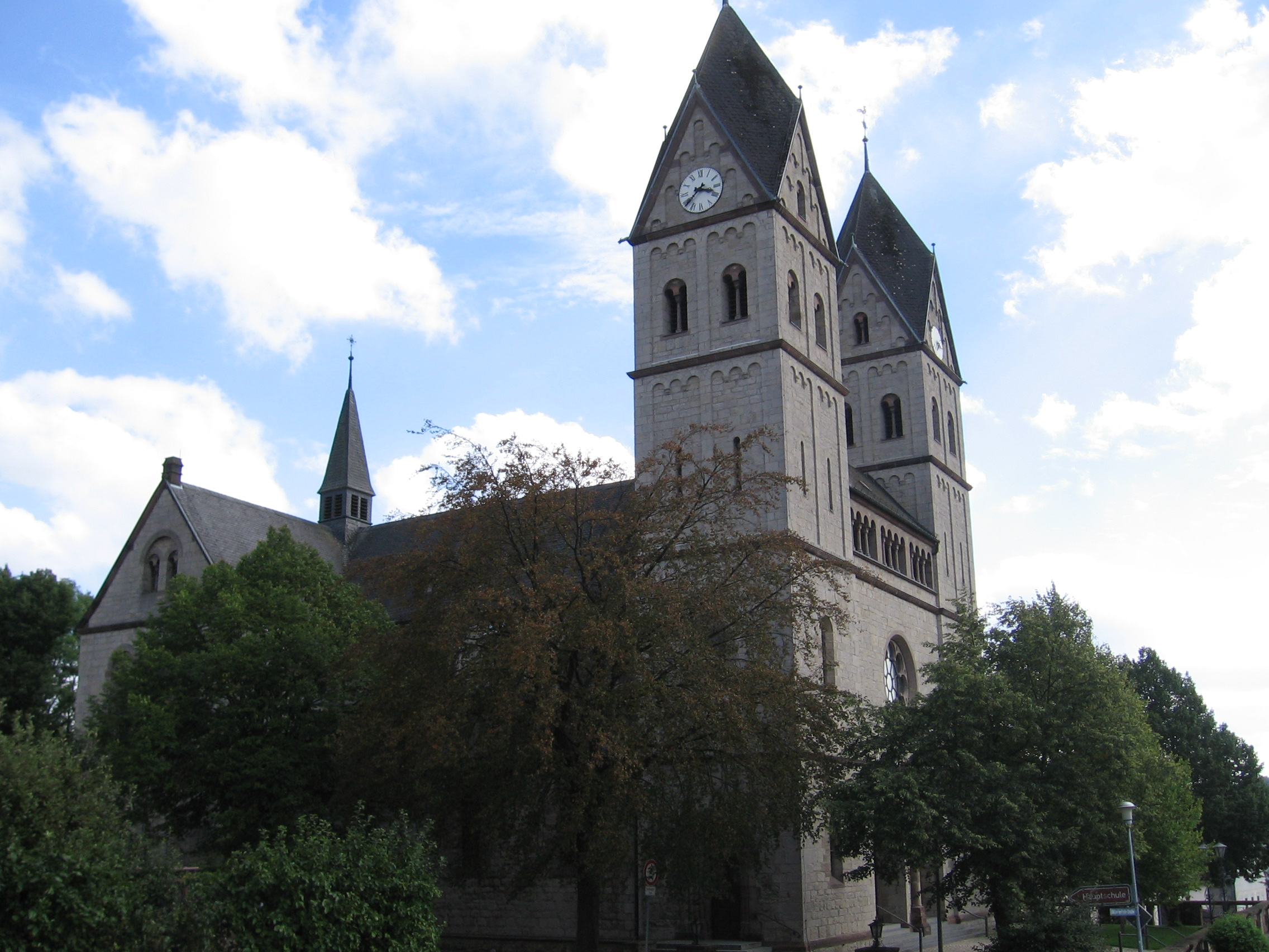 St. Elisabethkirche, church of the village Rimbeck, Northrhine-Westphalia, Germany This is a photograph of an architectural monument.